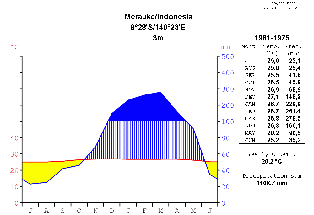 climate chart of Merauke, Papua (New Guinea), Indonesia, for the period of time from 1961 to 1975, in the format by Walter and Lieth, metric, °Celsius and millimeters, chart made with Geoklima 2.1, label in English